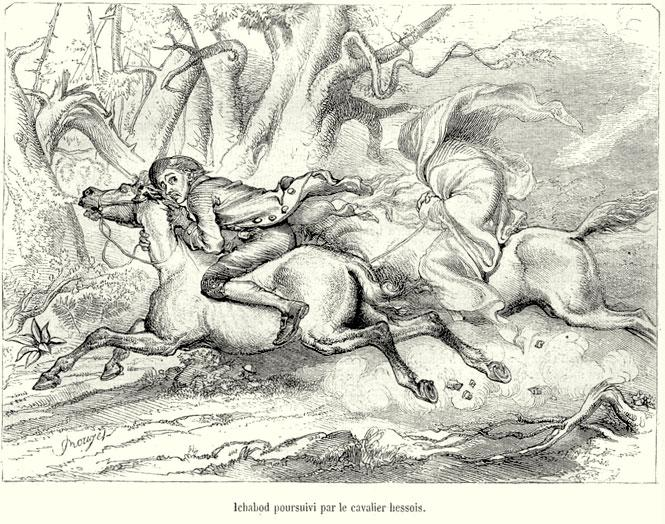 Ichabod pursued by the Headless Horseman